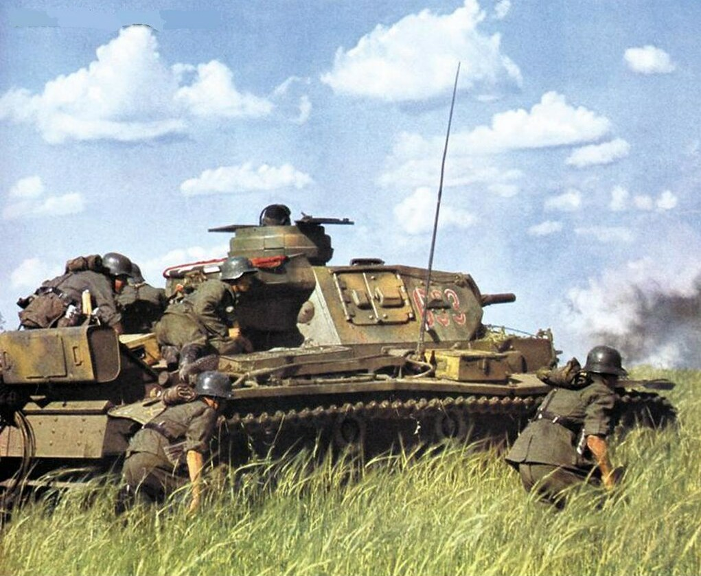 A German Panzer III with infantry in Russia.